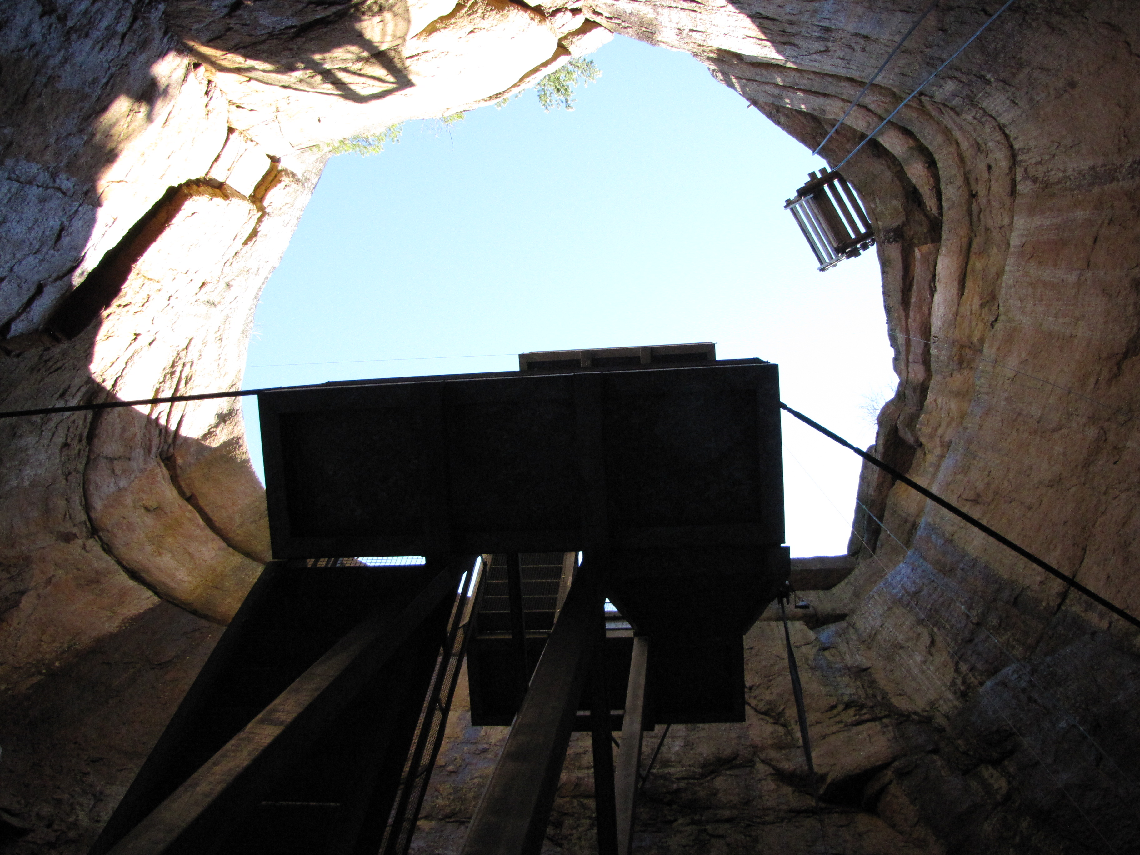 ”Pirunpesä” (Devil's Nest) on the top of Isovuori hill, Jalasjärvi, Finland.